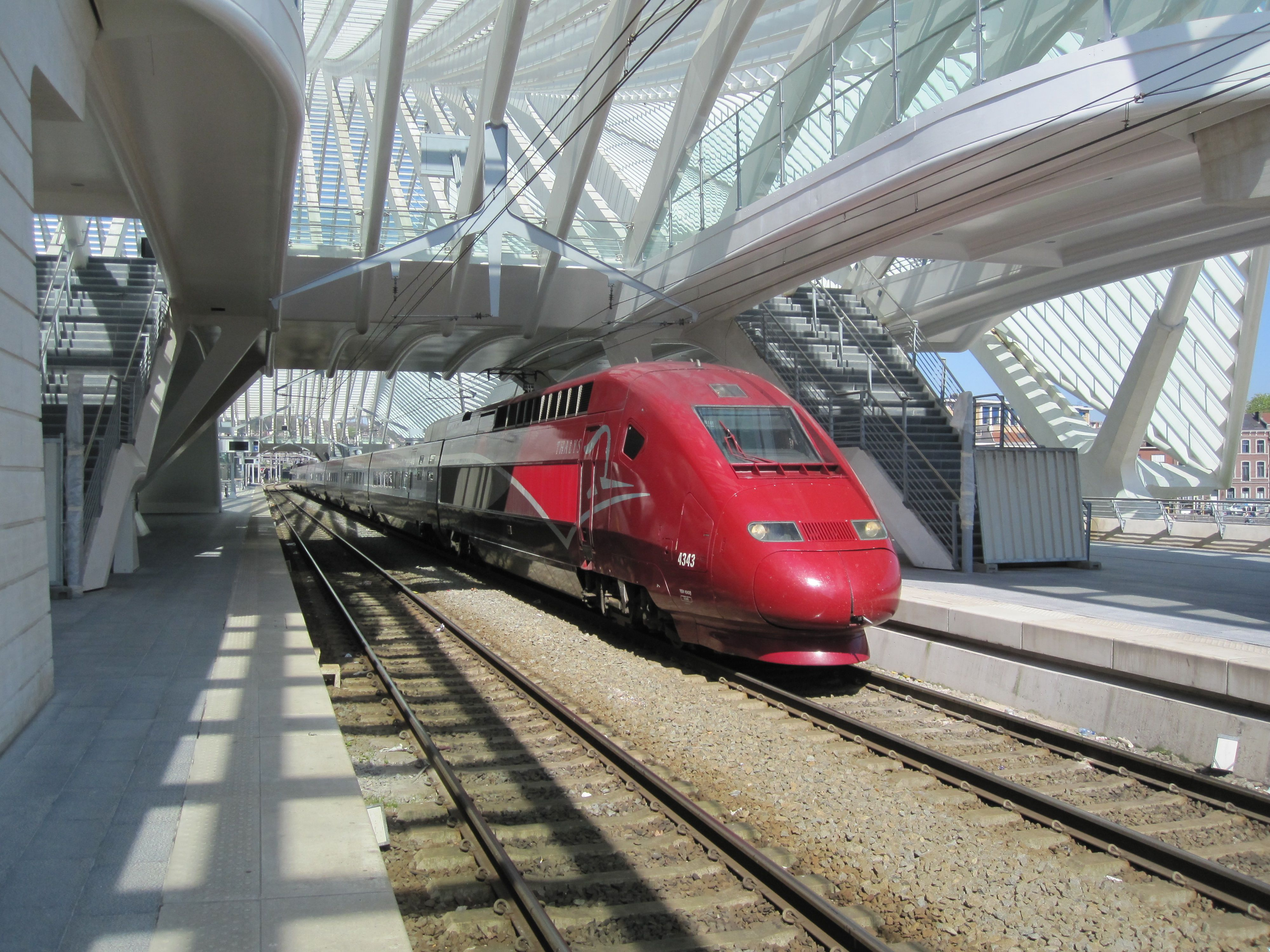 Liège-Guillemins 4343